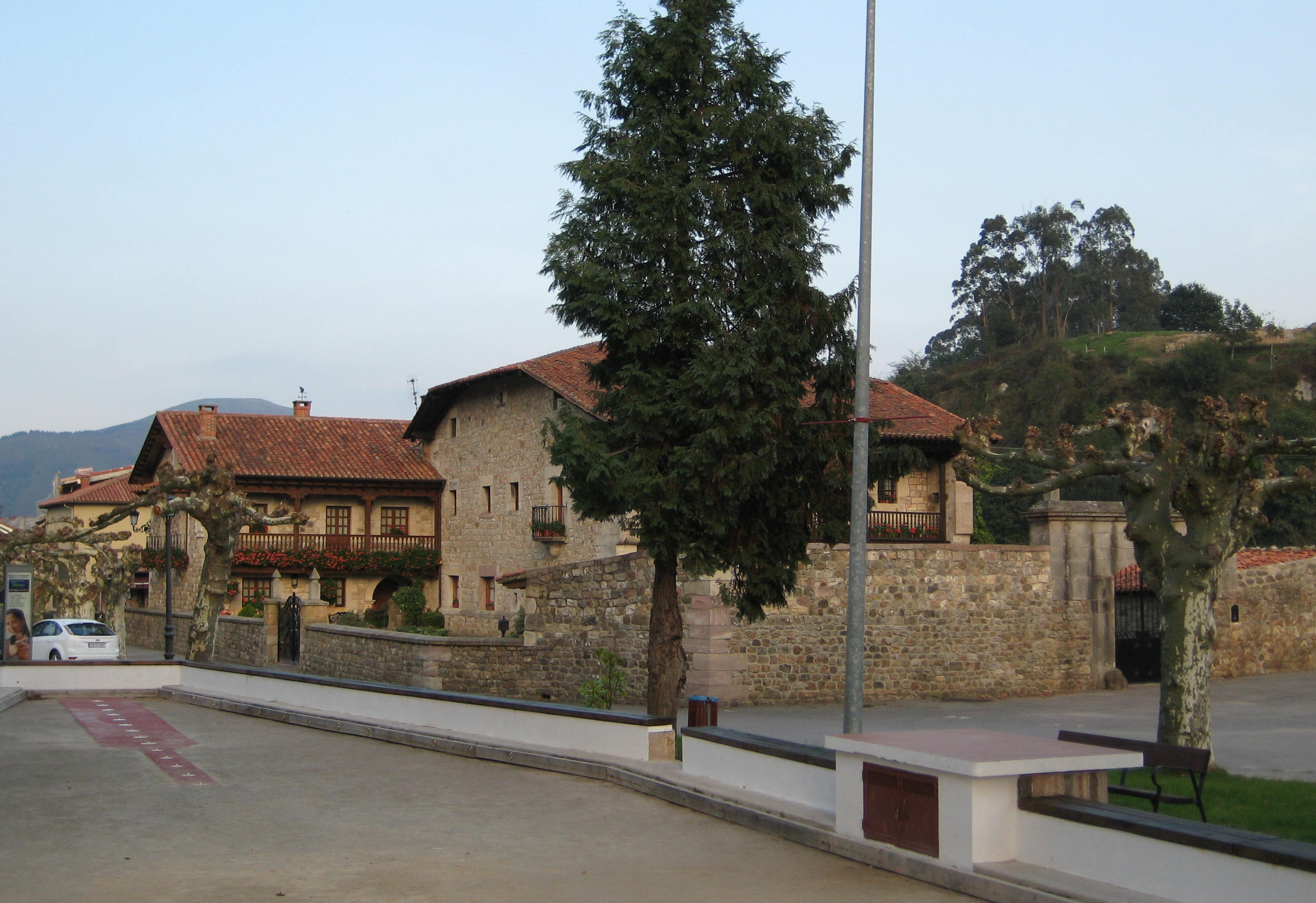 Bowling alley and Nogalea houses in Ruente (Cantabria, Spain).